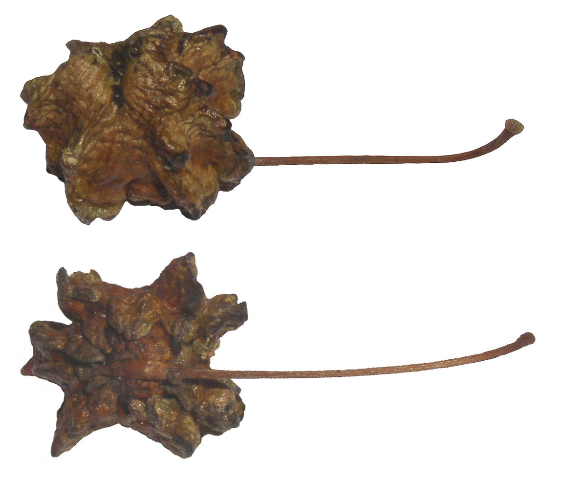 Quercus robur immature fruit (called acorns) damaged by the gall wasp Andricus quercuscalicis, Wrocław, Poland.